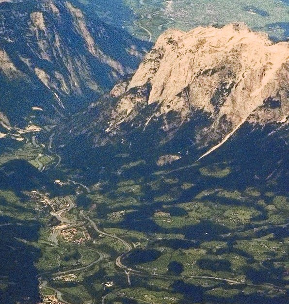 Southern walls and slopes of the Tennengebirge (near the town Werfen)